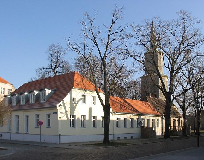 Market place and church St. Andreas (oldest parts from 12th century) in Teltow. The town Teltow belongs to the district Potsdam-Mittelmark in the state Brandenburg, Germany, and borders to the south of Berlin.